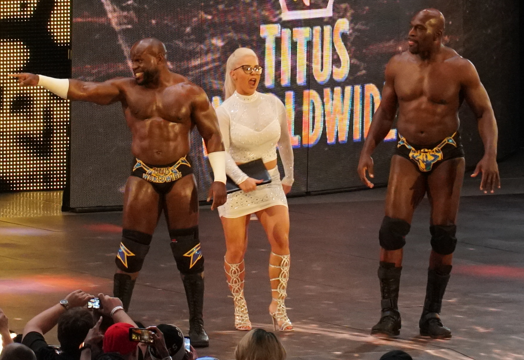 Titus Worldwide members from left to right: Apollo Crews, Dana Brooke and Titus O'Neil.